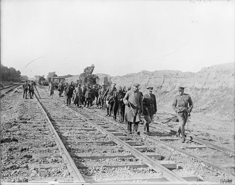 The Official Visits To the Western Front, 1914-1918 The Canadian journalists visiting a Canadian Railway Construction Company near Rang du Fliers 21 July 1918. Note steam shovel in background.